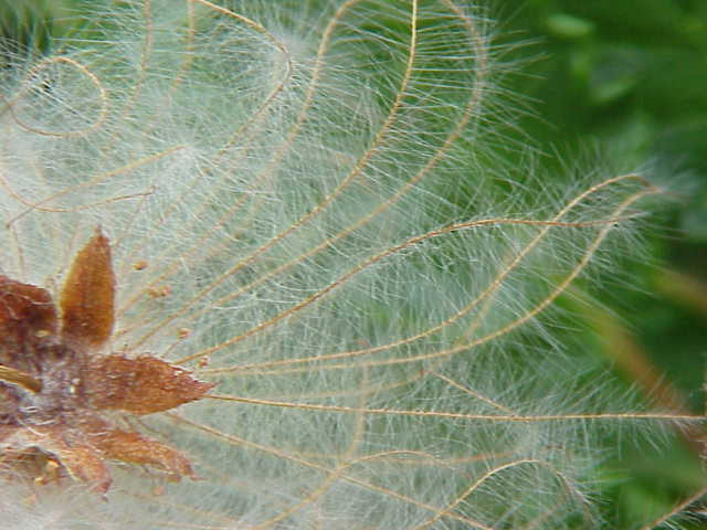 Species: Dryas drummondii Family: Rosaceae Image No. 2